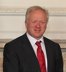 The Chair of the Finance Committee of Oireachtas Liam Twomey TD.